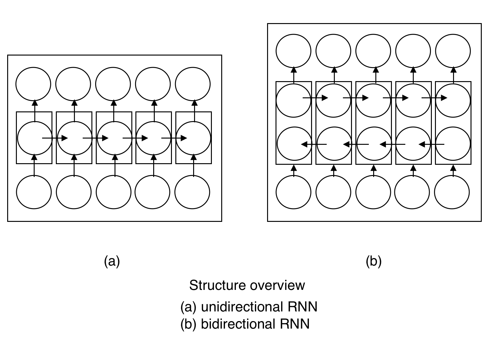 RNN_BRNN